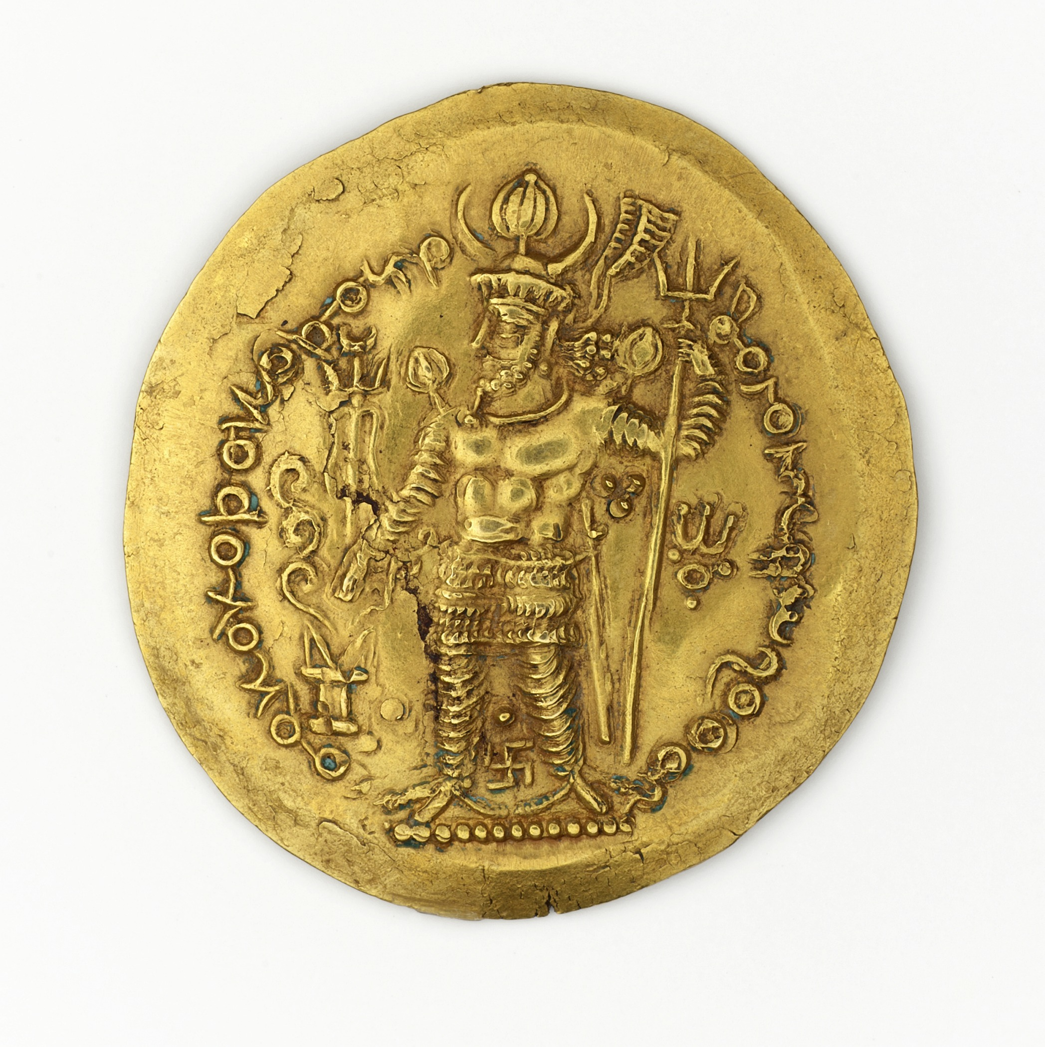 India, circa 325-330 Tools and Equipment; coins Gold Gift of Dr. and Mrs. A. J. Montanari (M.77.56.22) South and Southeast Asian Art